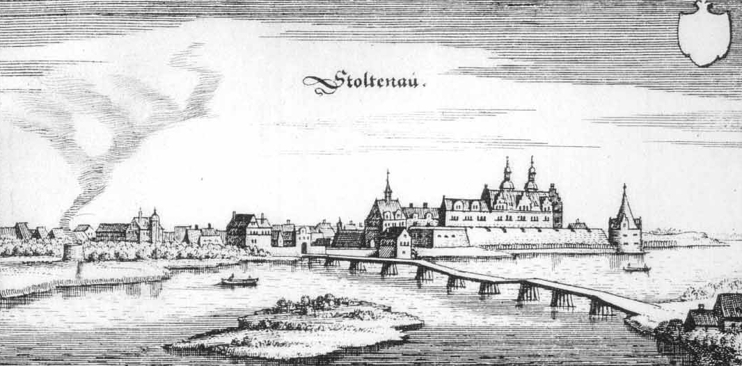 This is a scan of the historical document